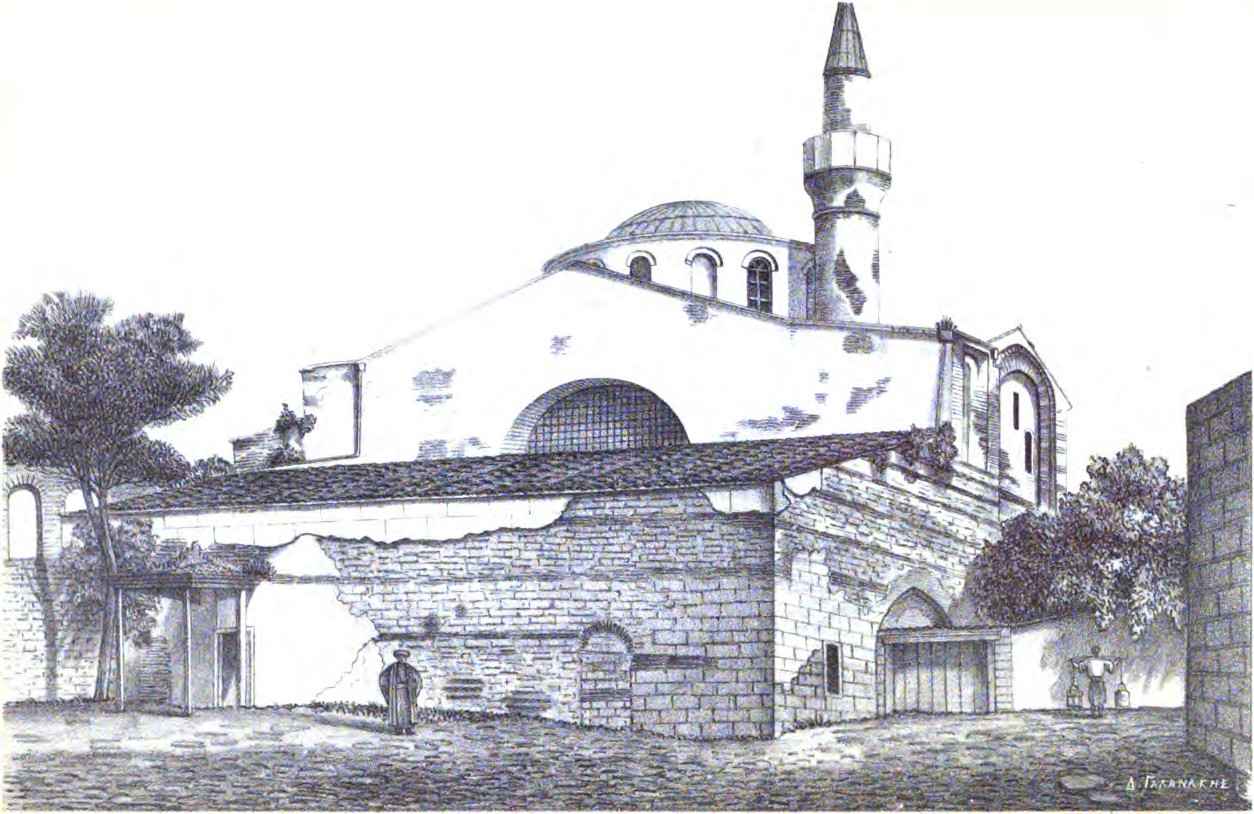 Byzantinai meletai topographikai (1877) Author: Paspatēs, Alexandros Geōrgiou, 1814-1891. [from old catalog] Subject: Inscriptions, Greek Year: 1877 Possible copyright status: NOT_IN_COPYRIGHT Language: English Digitizing sponsor: Google Book contributor: Oxford University Collection: europeanlibraries